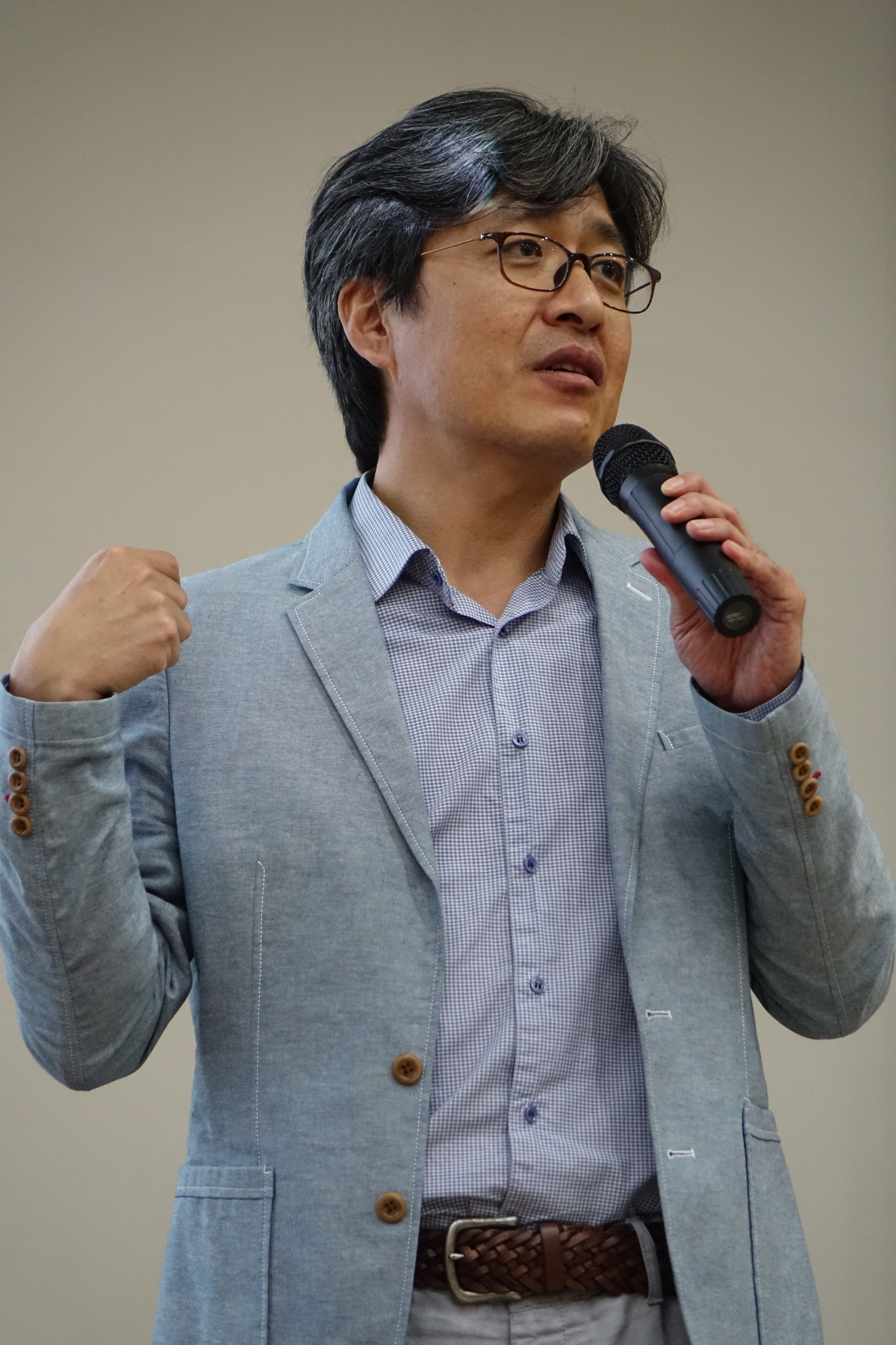 박순서가 서울소방 안전교육 담당들을 대상으로 강의를 하고 있다.